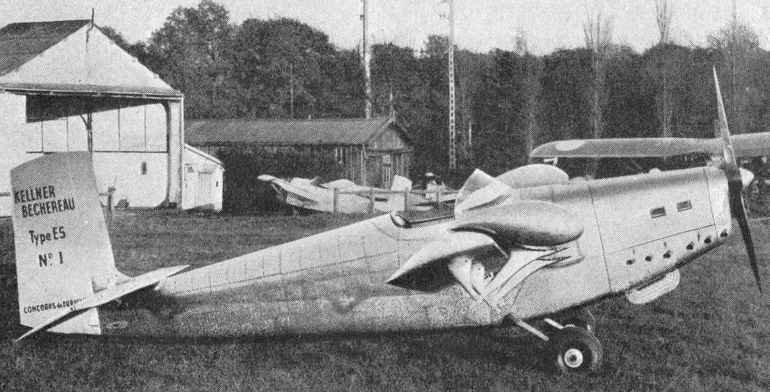 Kellner-Béchereau ED.5 photo from L'Aerophile February 1938